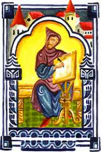 A monk monking in a scriptorium. Unknown medieval manuscript illumination ?